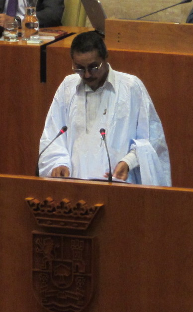 Current speaker and president of the Sahrawi National Council Khatri Adduh at the Parliament of Extremadura, 26 July 2012.